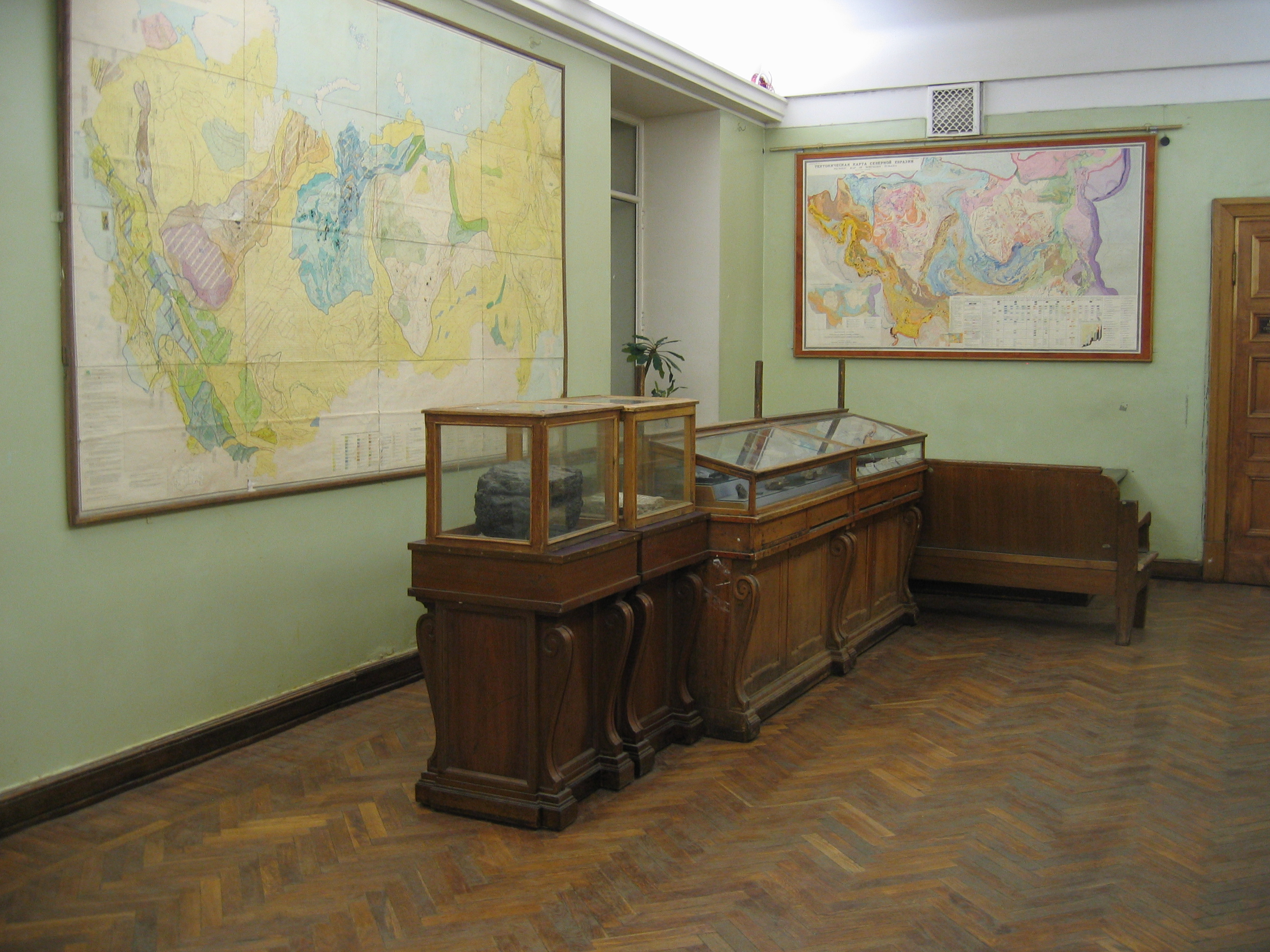 The main building of Moscow State University. Views from outside and from inside